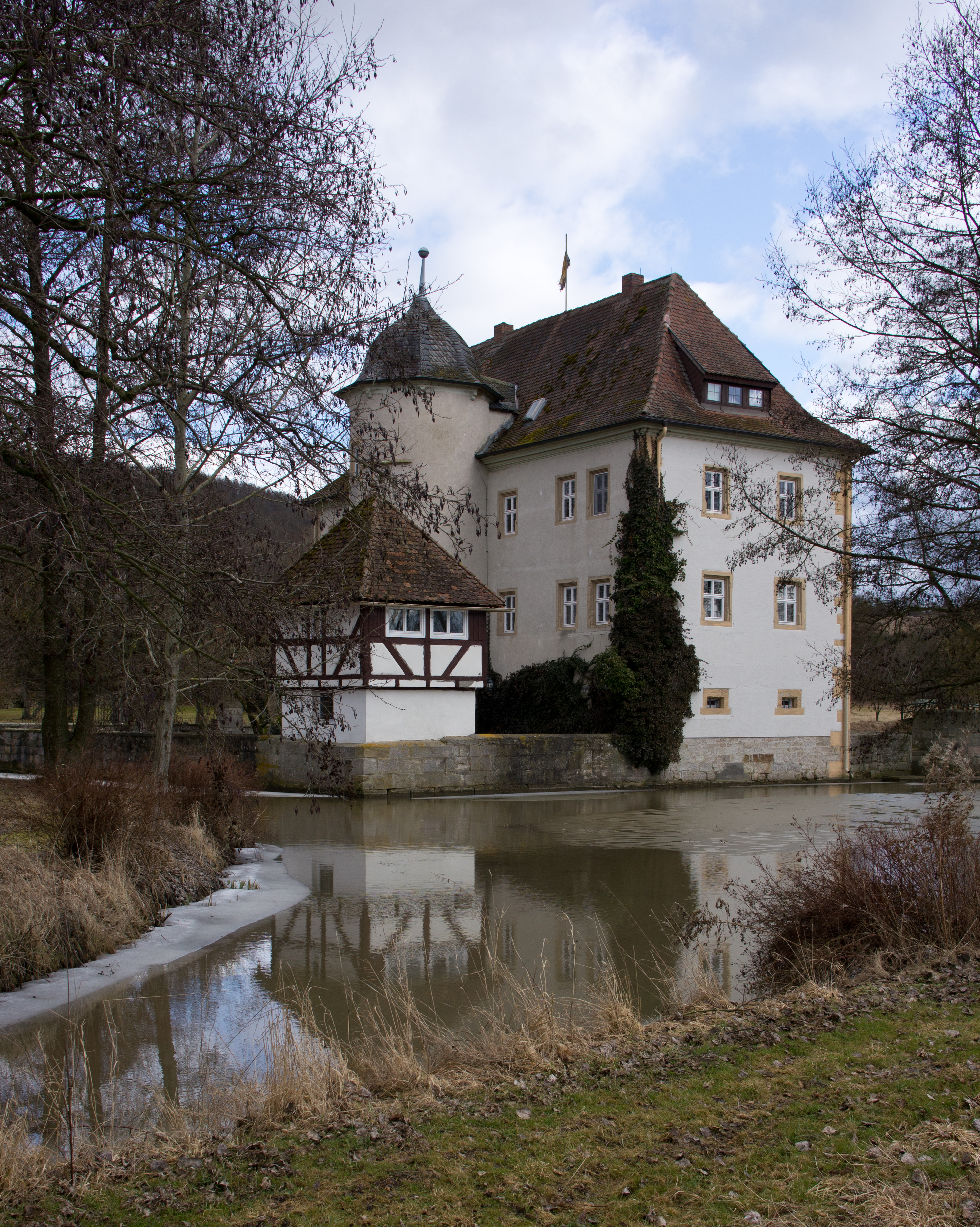 Moated castle Kleinbardorf, county Rhön-Grabfeld, Bavaria